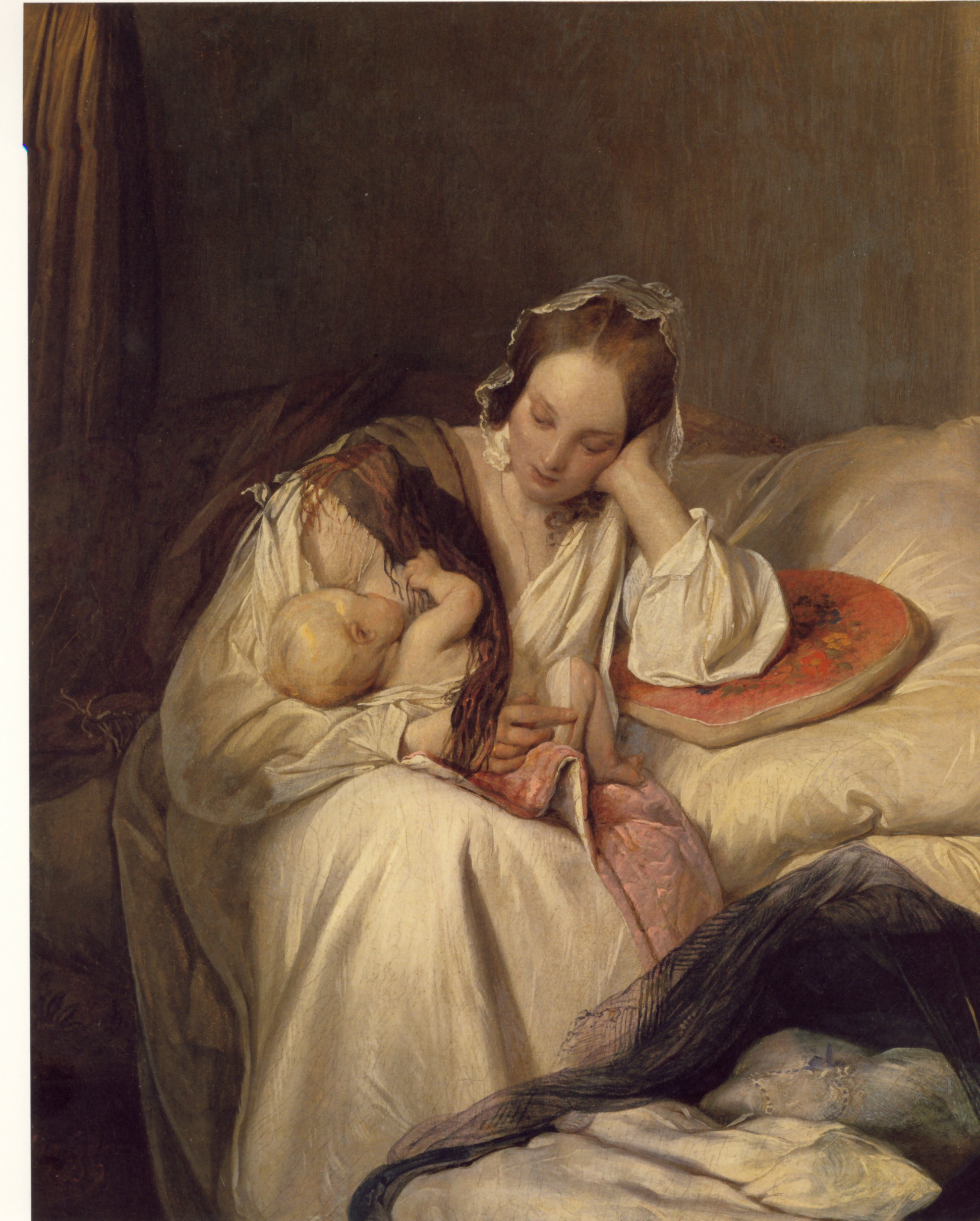 The wife of the artist with child